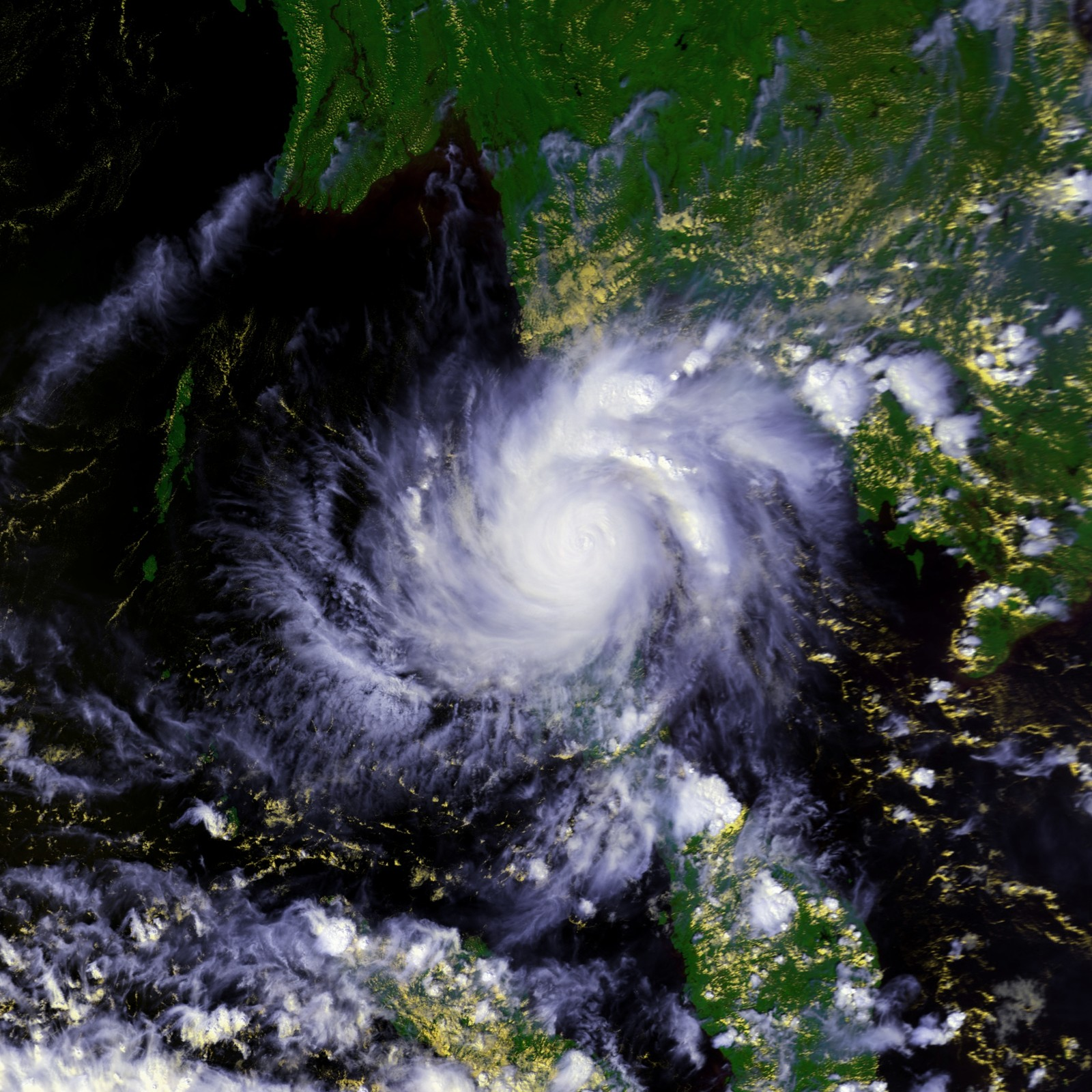 Typhoon Gay after making landfall on the Malay Peninsula. This image was produced from data from NOAA-11, provided by NOAA.